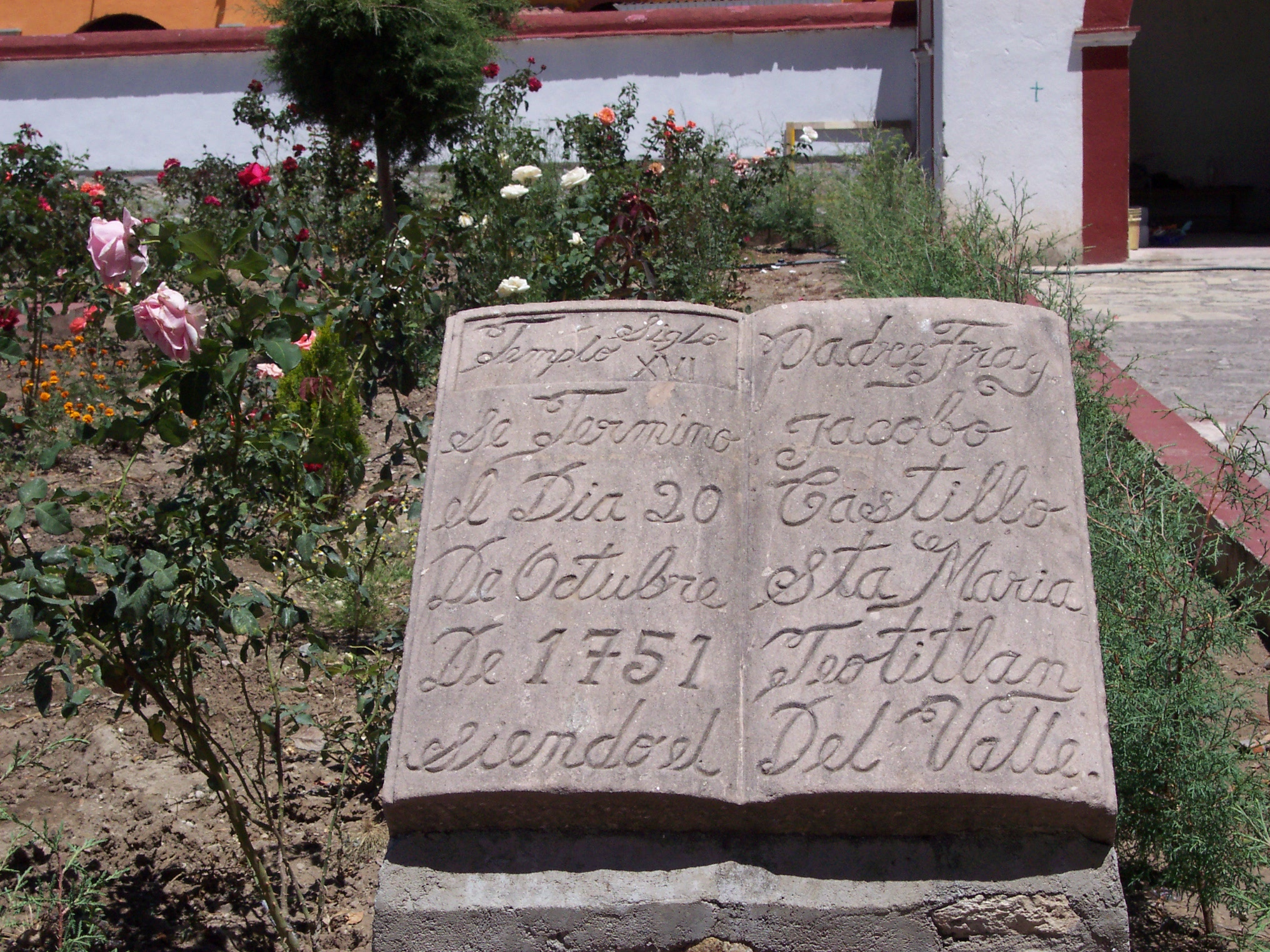 Singboard of the main church of Teotitlán del Valle town. Signboard transcription --- Century XVI Temple It was finished on october 20th, 1751 being the father Fray Jacobo Castillo, Santa Maria Teotitlan del Valle. --- SPANSIH: Placa informativa de la iglesia principal. Transcripción de la placa: --- Templo Siglo XVI Se terminó el dia 20 de octubre de 1751 siendo el padre Fray Jacobo Castillo. Santa Maria Teotitlan del Valle. --- Located in: Teotitlán del Valle, Oaxaca. Mexico.